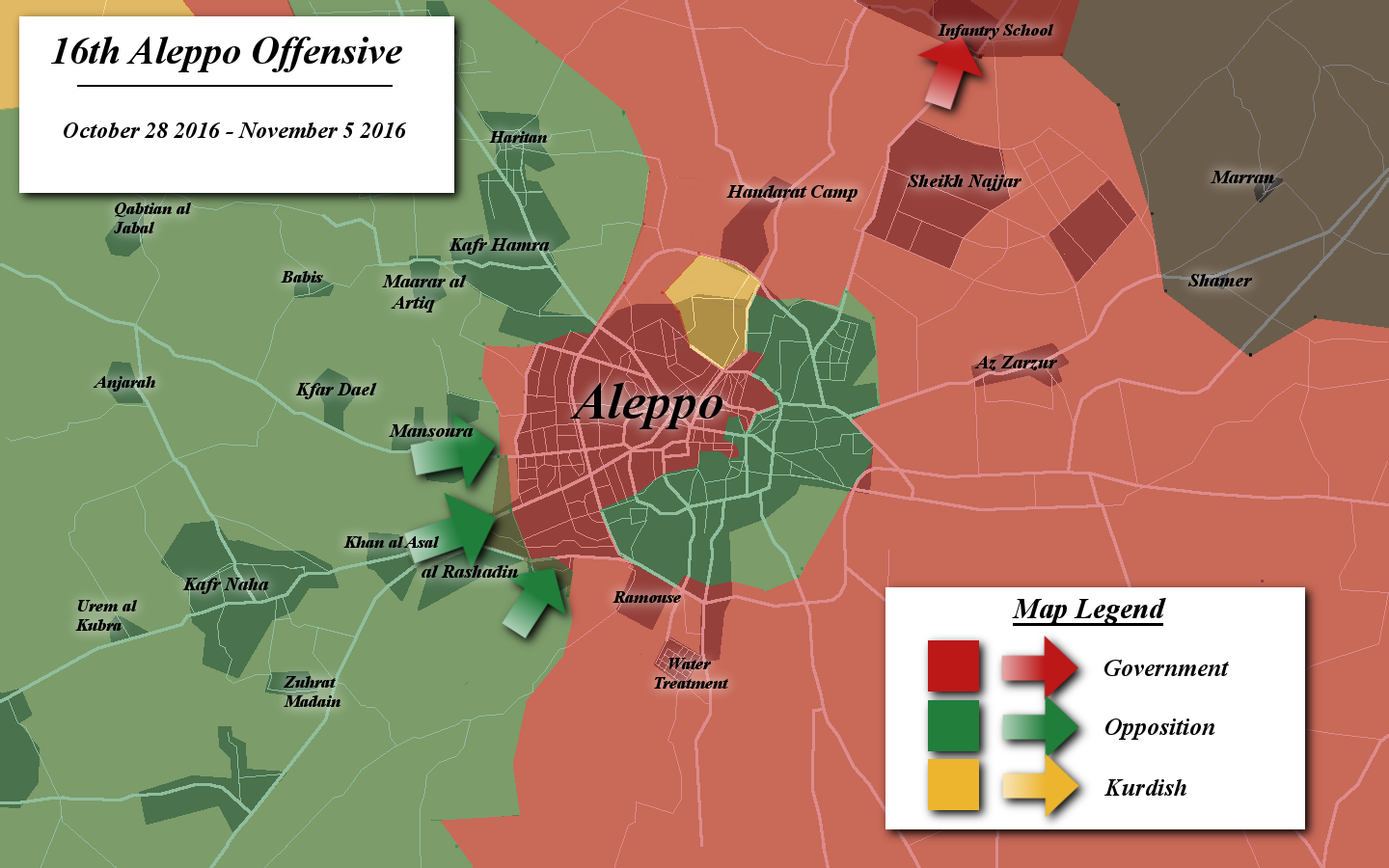 A simplified version of the Rebel Aleppo Offensive. Created in gimp 2.8. Influenced by many maps from creators: MrPenguin20, PetoLucem, Edmaps Syria, and so on.